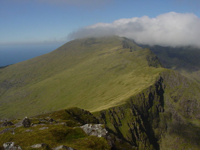 Brandon Mountain from Brandon Peak This lofty ridge walk provides a very rewarding days walk. The view here looks north west from Brandon Peak towards Brandon Mountain.